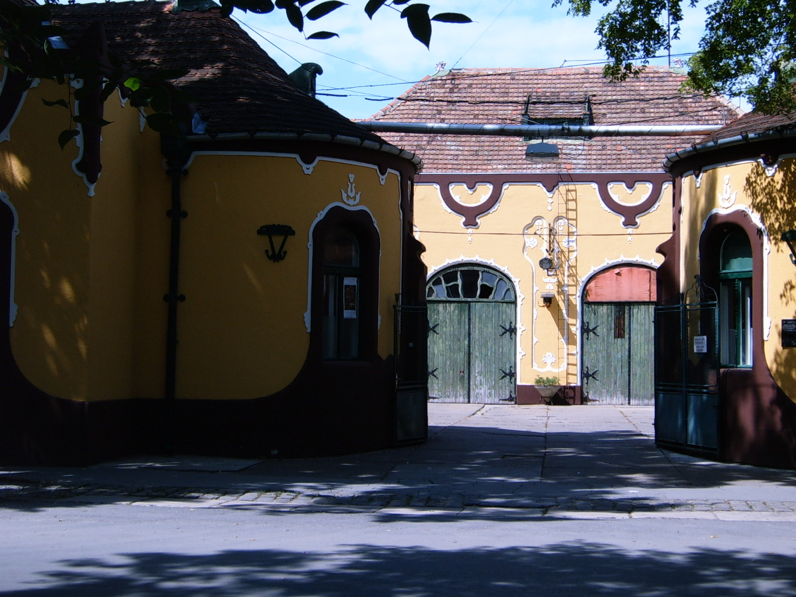 The firehouse in Senta (Serbia)